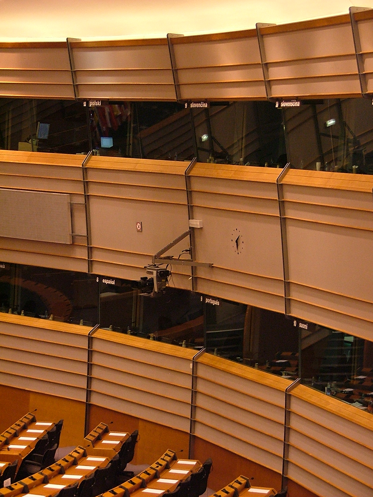 Belgium, Bruxelles - Brussel, European Parliament. Translation booths in the hemicycle.